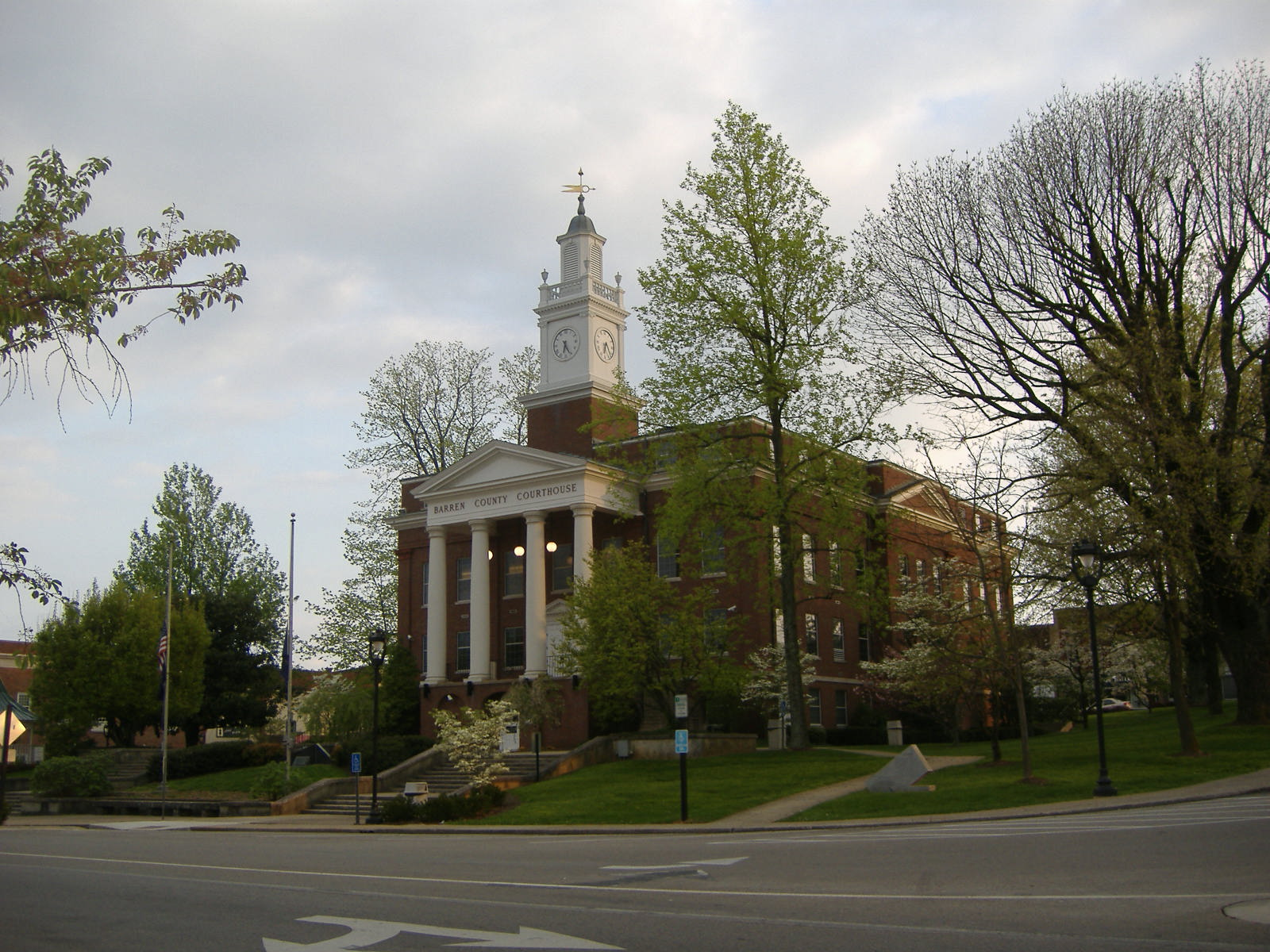 Barren County courthouse in Glasgow.